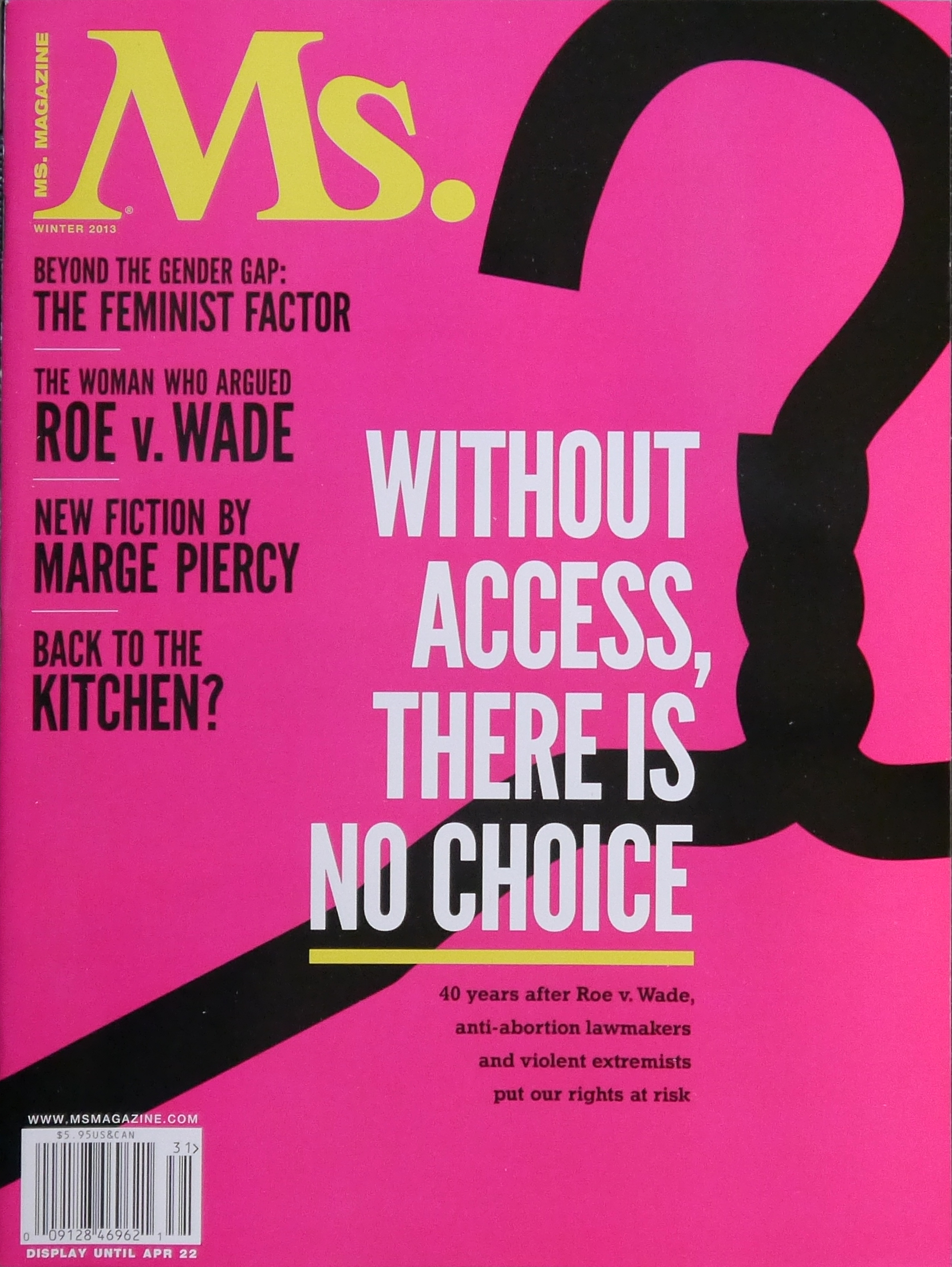 Ms. magazine, Spring 2013